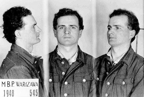 Edmund Tudruj (1923-1949) – soldier of Armia Krajowa and Wolność i Niezawisłość in rank of Lieutnant. Arrested, executed.